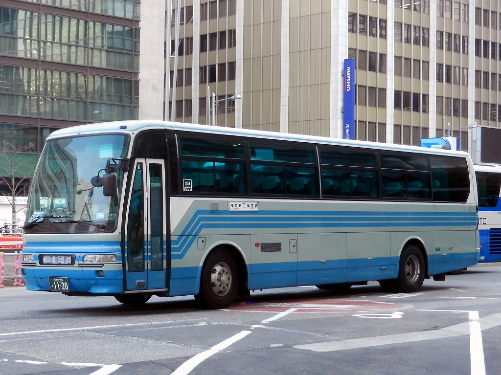 Kantetsu Green bus (Hokota) Mitsubishi Fuso Aero Bus (KC-MS829P)